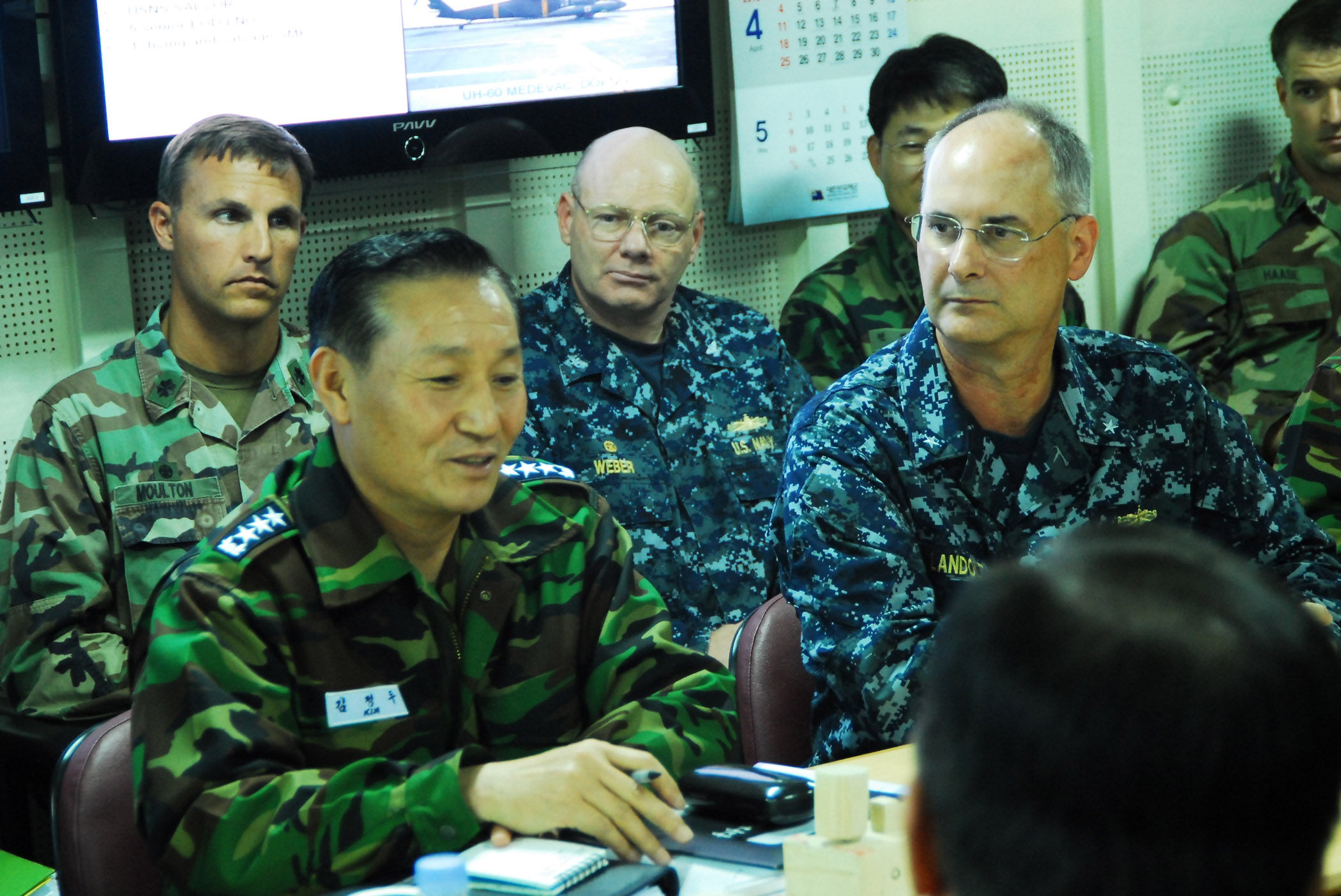 YELLOW SEA (April 7, 2010) Vice Adm. Kim Jung Du, commander for the Republic of Korea Navy salvage efforts of the sunken ROK Navy ship, and Rear Adm. Richard Landolt, on scene commander of US support to ROK salvage efforts, discuss salvage operations with ROK and US leadership aboard the ROKS Dokdo April 7. USS Harpers Ferry (LSD 49), USNS Salvor (T-ARS 52), USS Curtis Wilbur (DDG 54), Mobile Diving and Salvage Unit One and Explosive Ordinance Disposal Mobile Unit Five Platoon 501 are supporting Republic of Korea Navy efforts to salvage a ROK Navy ship which sank Mar. 26. (US Navy photo by Lt. Cmdr. Denver Applehans)